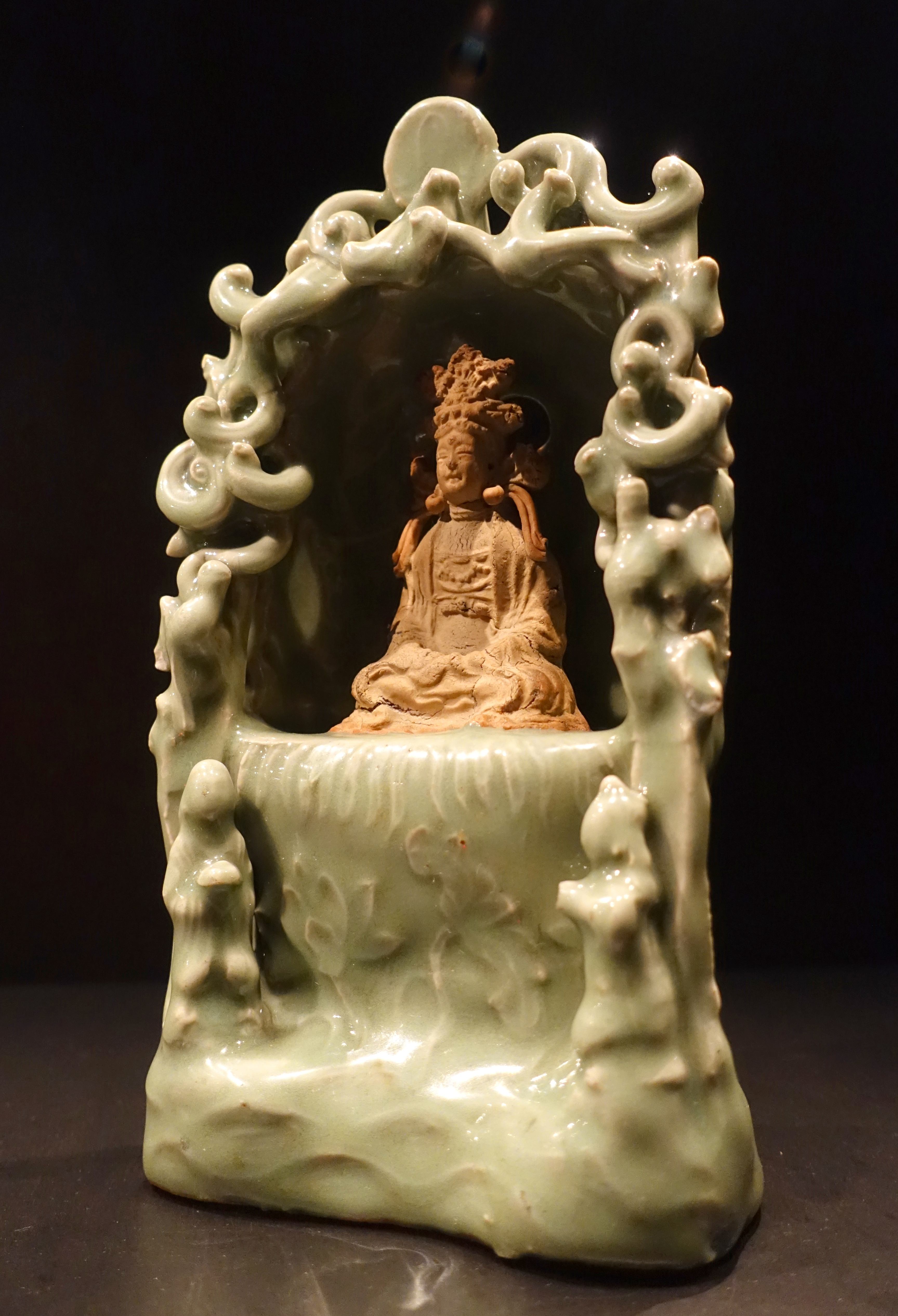 Exhibit in the Östasiatiska museet, Stockholm, Sweden. This artwork is old enough so that it is in the public domain. This is a photo of an artwork at the Museum of Far Eastern Antiquities in Sweden with the identifier: OM-1992-0055